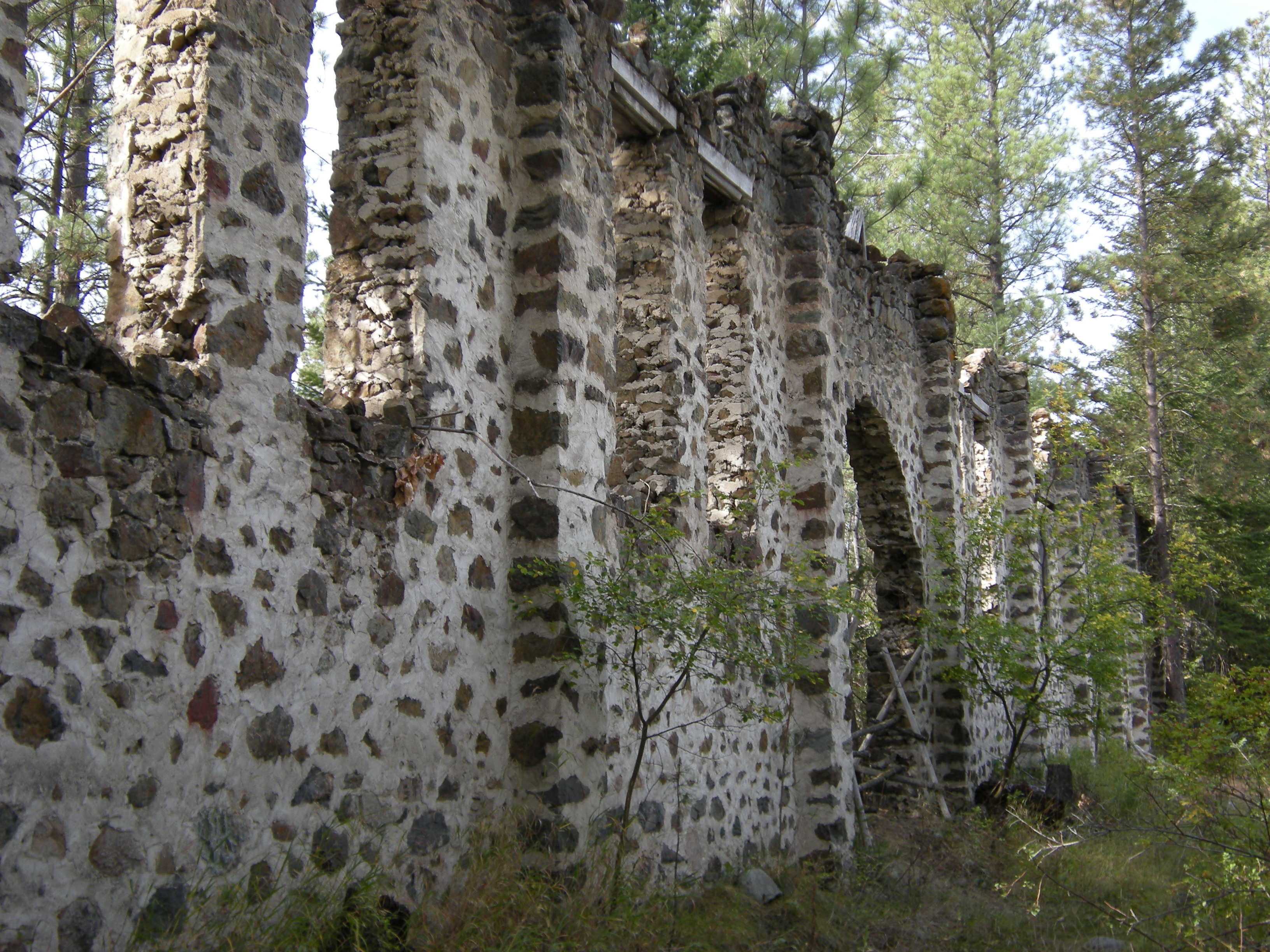 Princeton Castle (the ruins of East Princeton, now a resort), on the outskirts of Princeton, British Columbia.